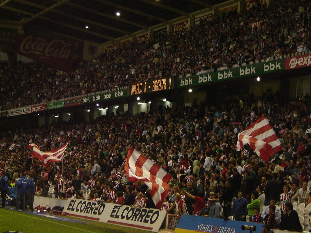 Athletic Bilbao fans in San Mames Stadium.